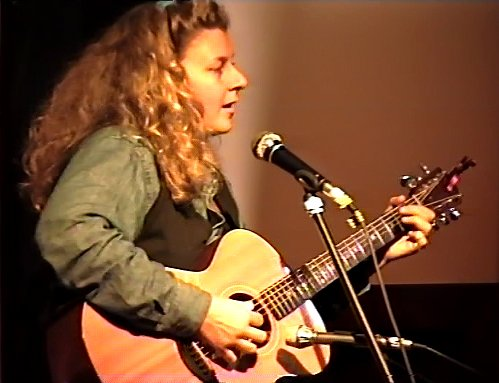 Kristina Olsen (U.S. singer-songwriter) on stage at the 1997 Cygnet Folk Festival (1) (Tony Rees photograph)